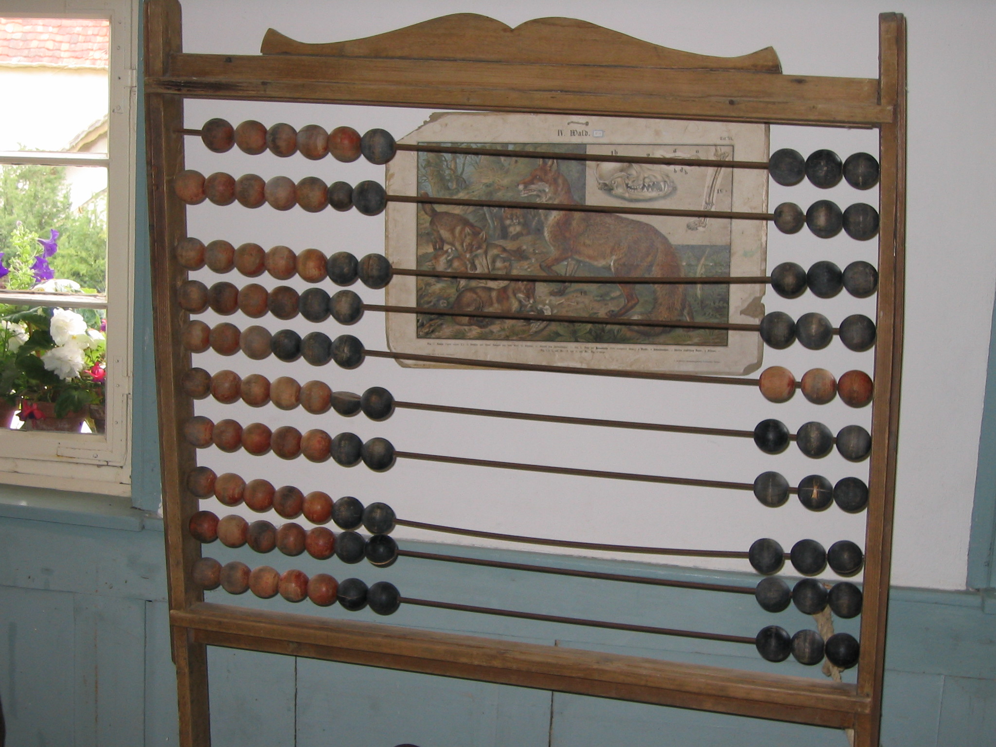 Abacus at the Freilichtmuseum Neuhausen ob Eck